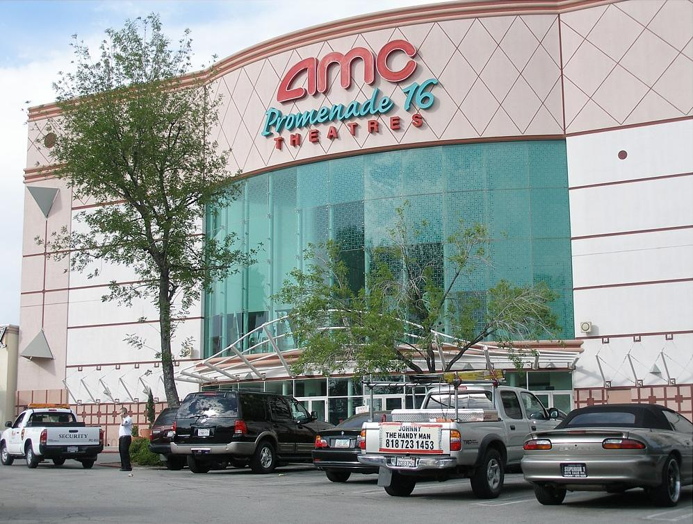 AMC Theatres Promenade 16, a 16-auditorium movie theater or multiplex. It is located at Westfield Shoppingtown Promenade, a shopping center in Woodland Hills. Photographed on May 19, 2006 by user Coolcaesar.